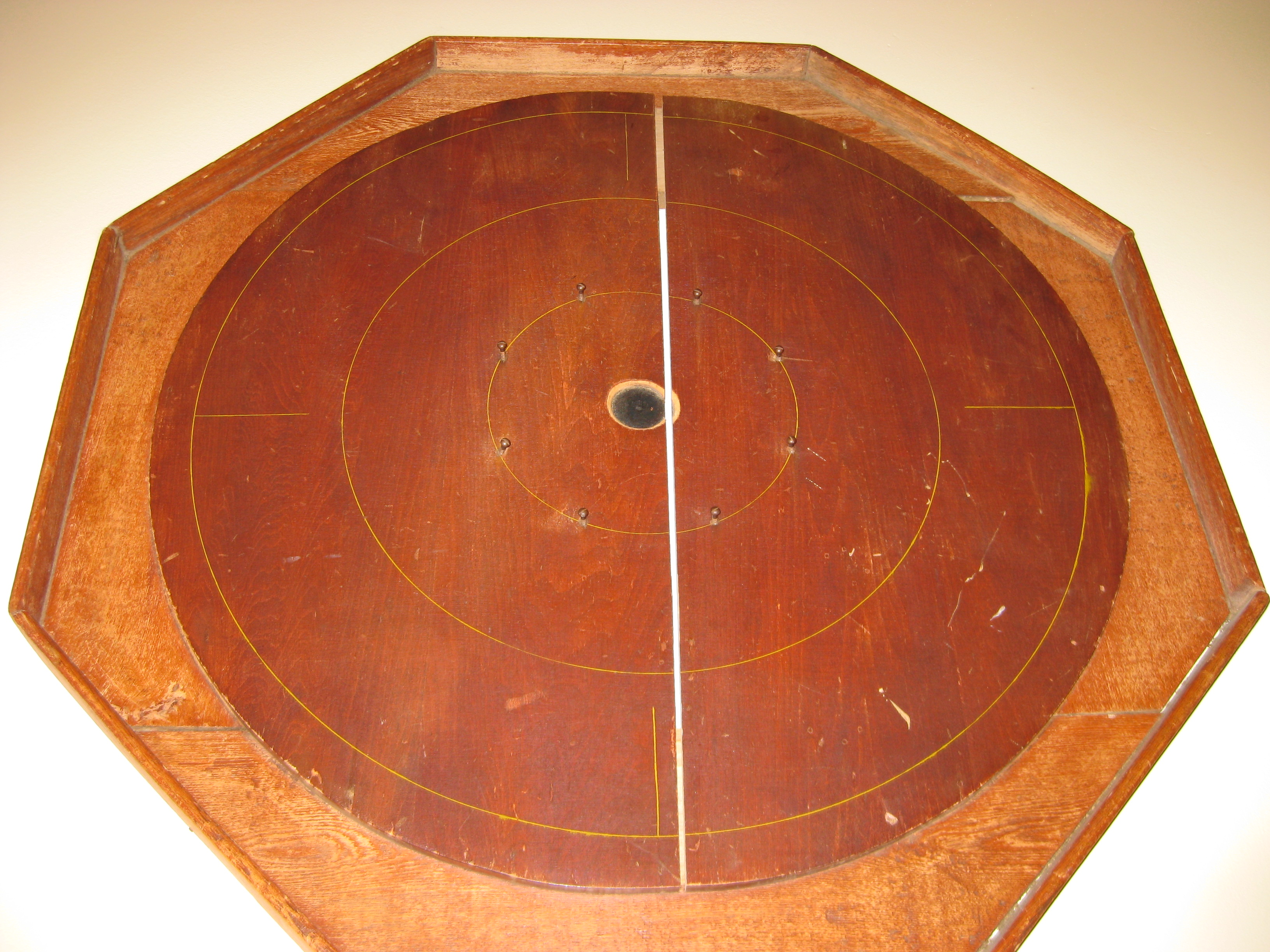 Vintage wooden crokinole board, Québec, c. 1925